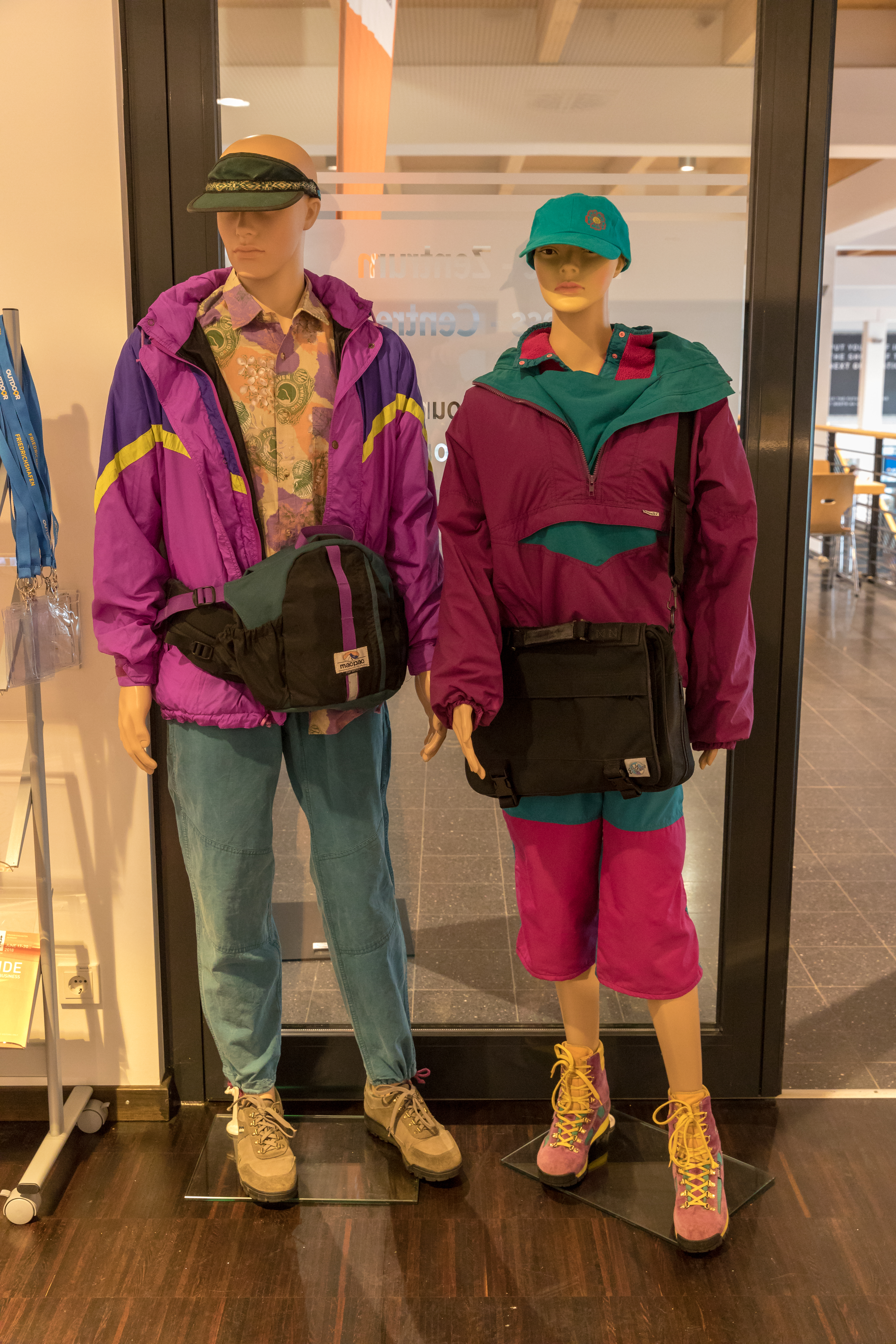 OutDoor 2018